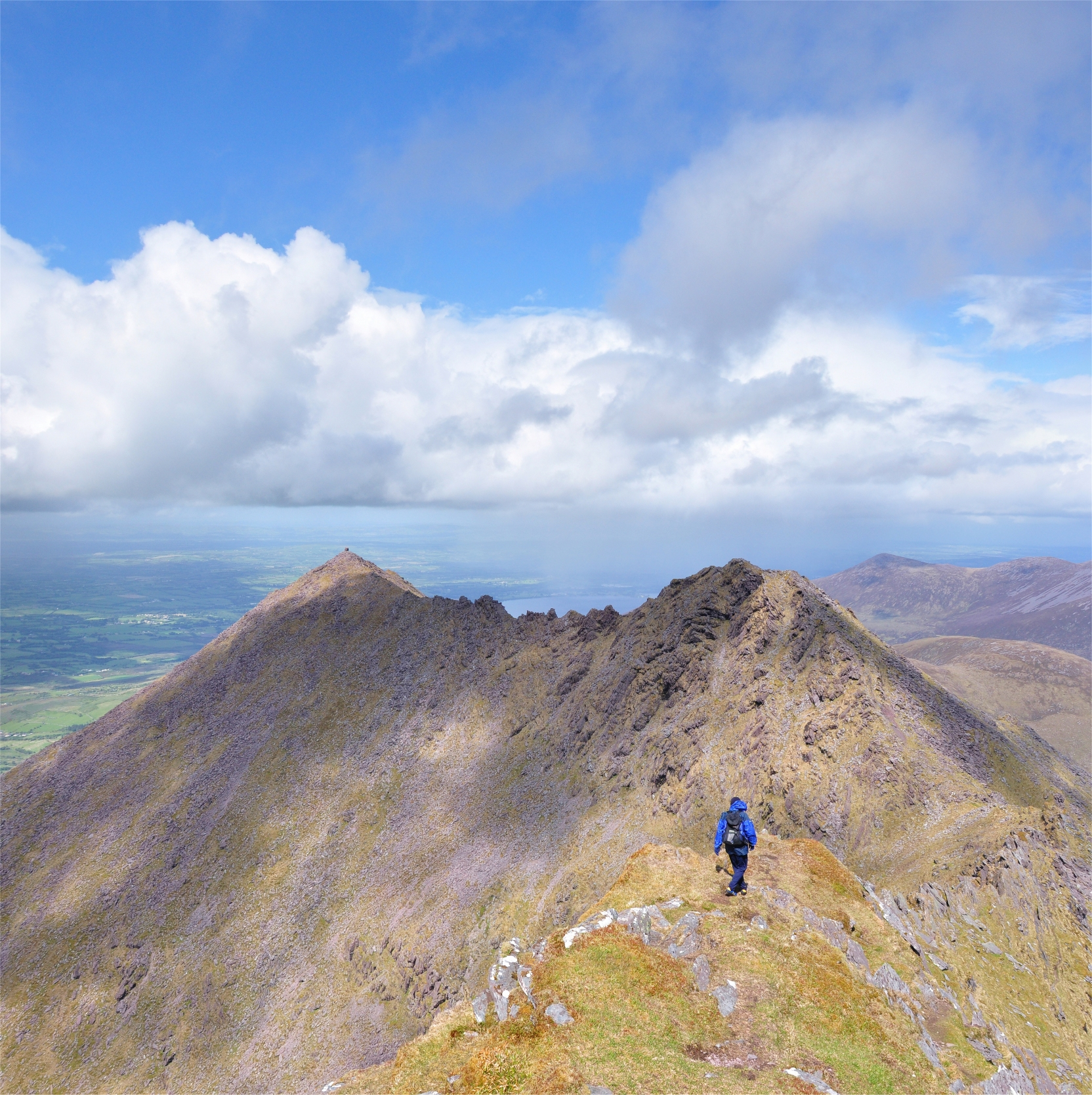 The mountain peaks of Cruach Mhór (left) and The Big Gun (right) seen from Cnoc na Péiste, County Kerry, Ireland.